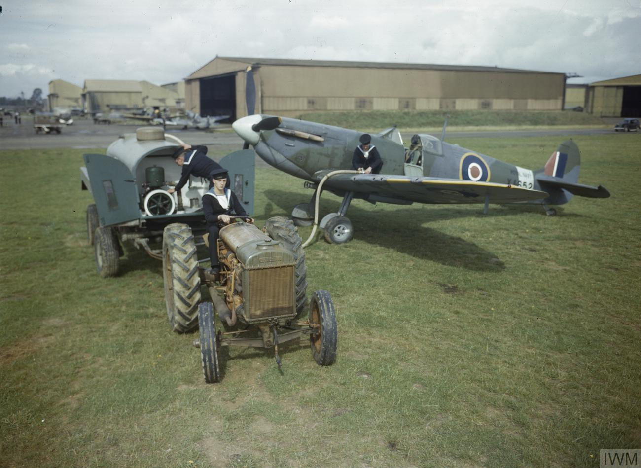 Ground Crew Working on Fleet Air Arm Aircraft at Rnas Yeovilton, September 1943 Fleet Air Arm Supermarine Seafire X4652 being refuelled by petrol bowser at the Fleet Air Arm airfield at Yeovilton, Somerset.